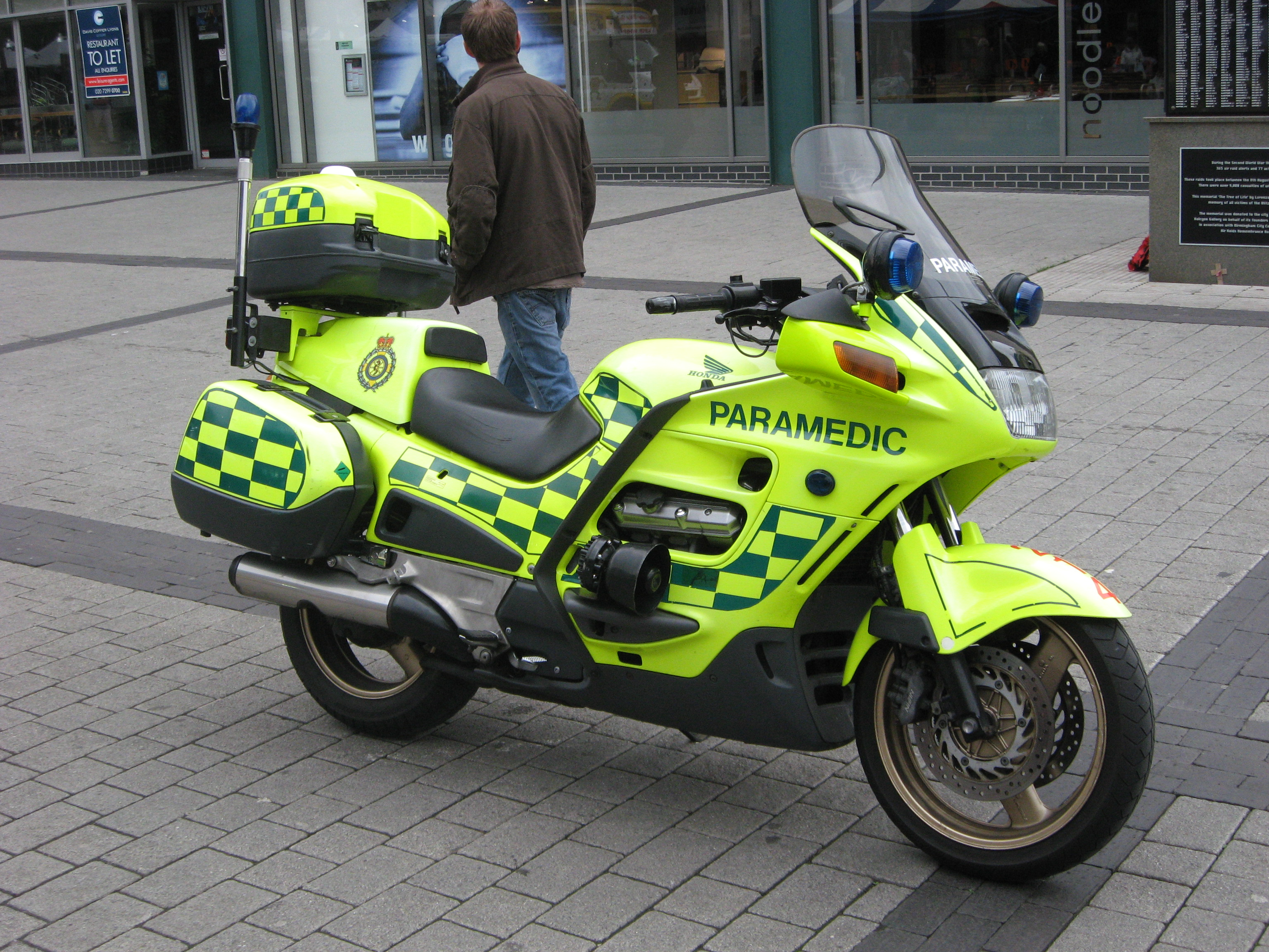 Motorcycle paramedic West Midlands Ambulance Service. Birmingham, 2008.